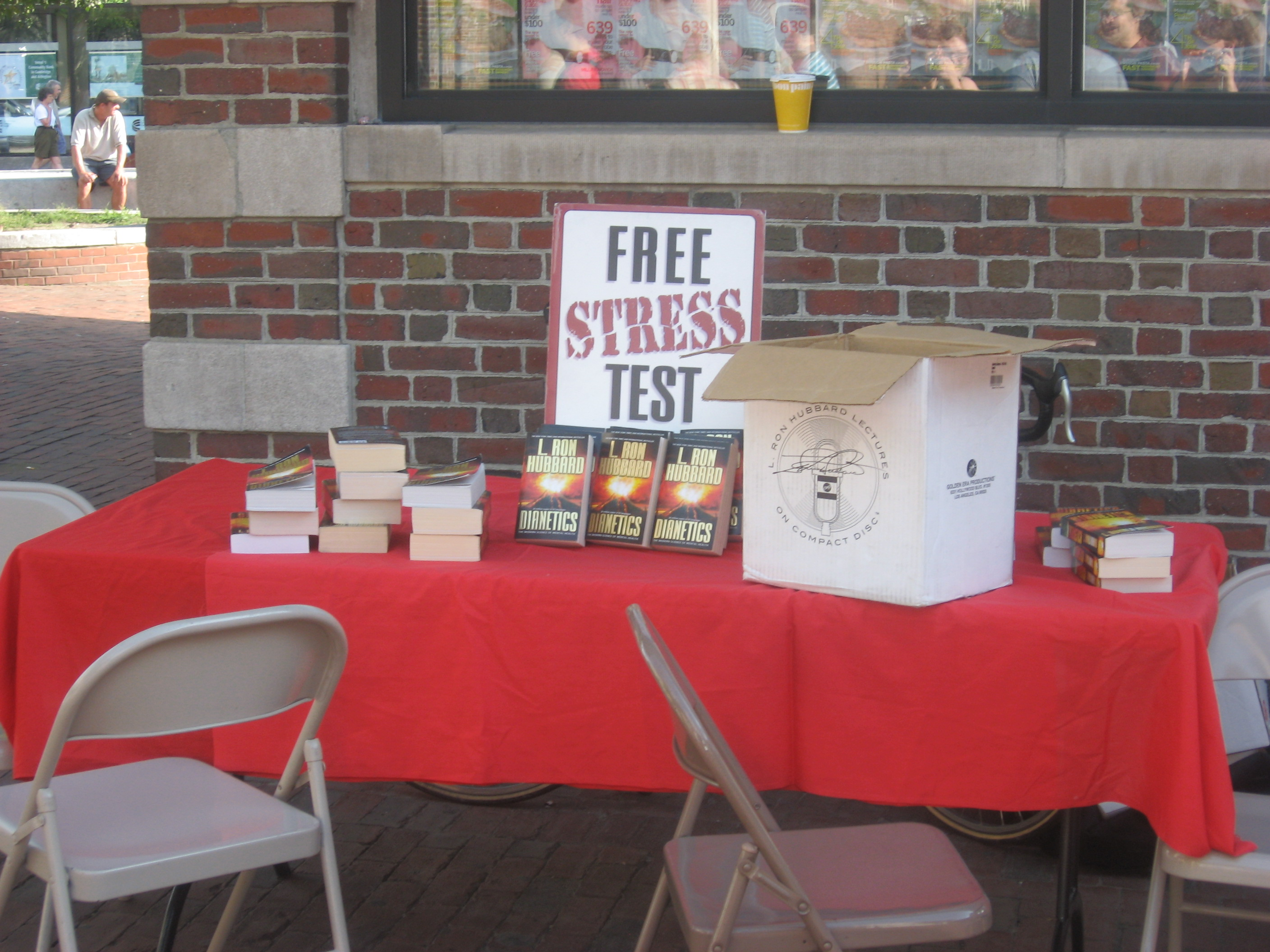 Copies of Dianetics.